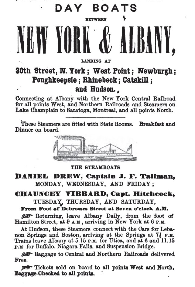 1864 advertisement for the New York and Albany Day Line (later the Hudson River Day Line), featuring schedules for the steamboats Daniel Drew and Chauncey Vibbard.